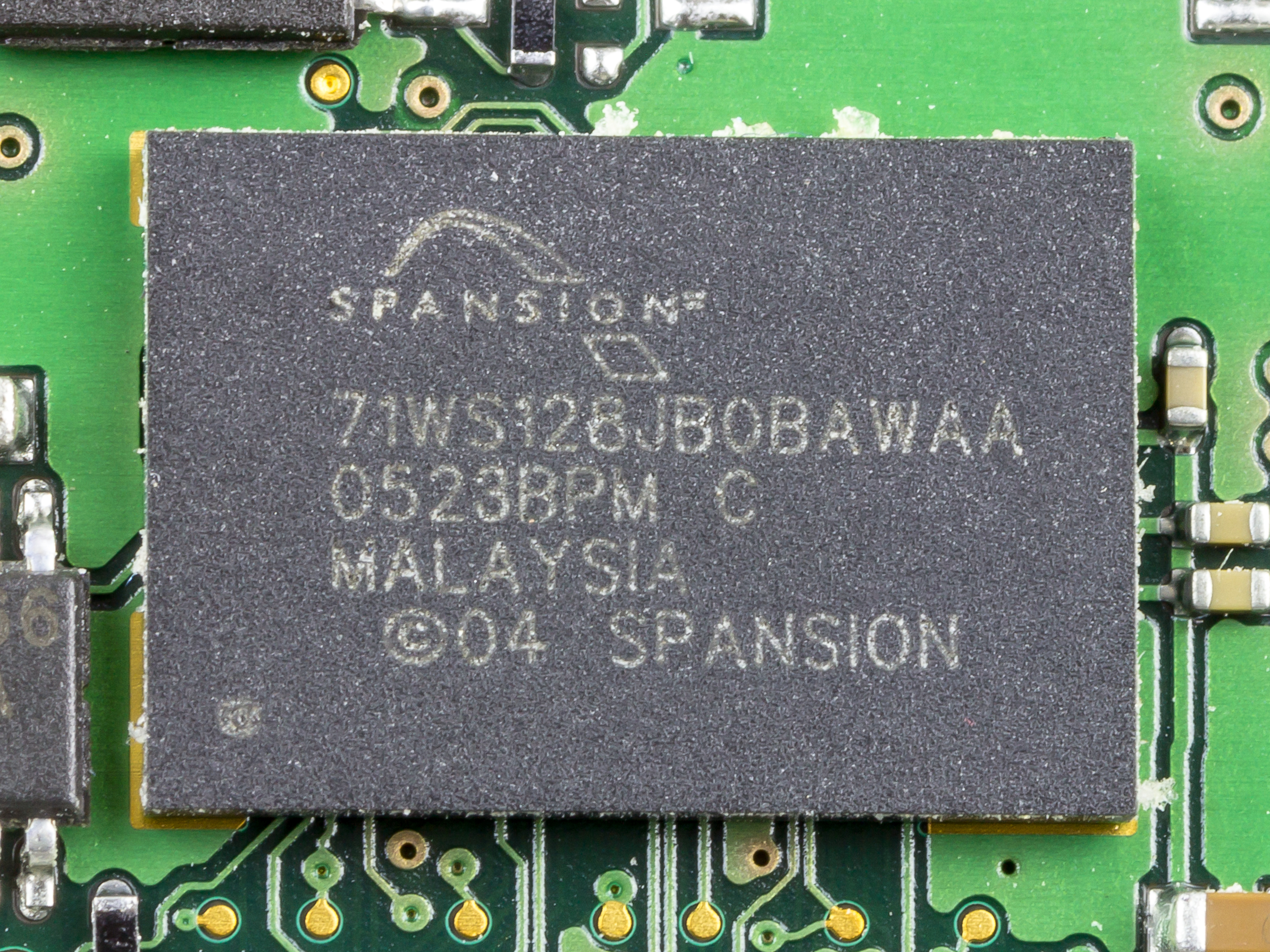 Option PC Card GT 3G Quad - Spansion 71WS128JB0BAWAA - 128/64 Megabit (8M/4M x 16-bit) CMOS 1.8 Volt-only, Simultaneous Read/Write, Burst Mode Flash